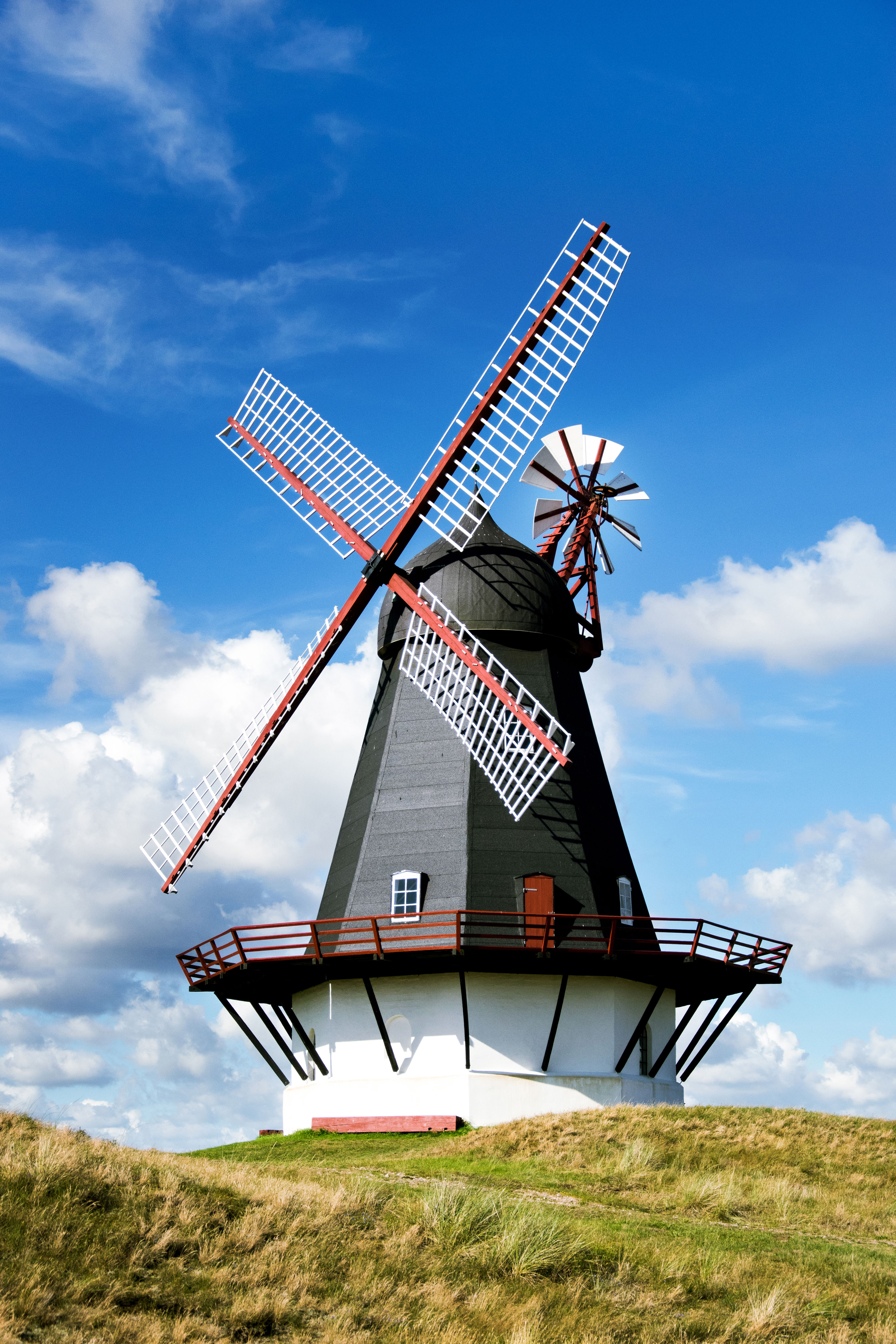 Windmühle in Sønderho, im Süden der Insel Fanø, Syddanmark, Dänemark